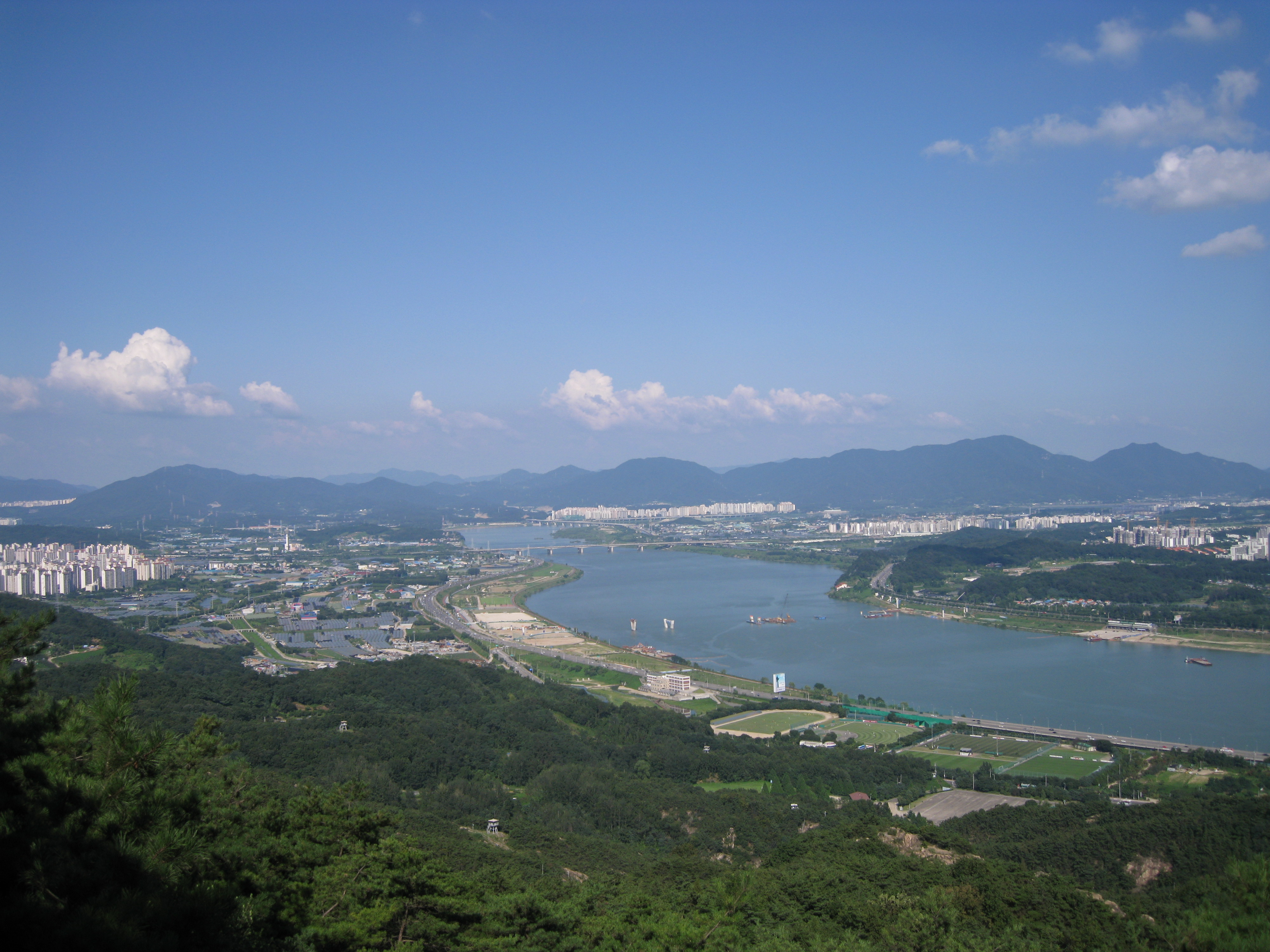 Korea-Seoul-Han River